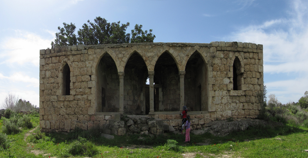 Beit Govrin, Architecture of Israel